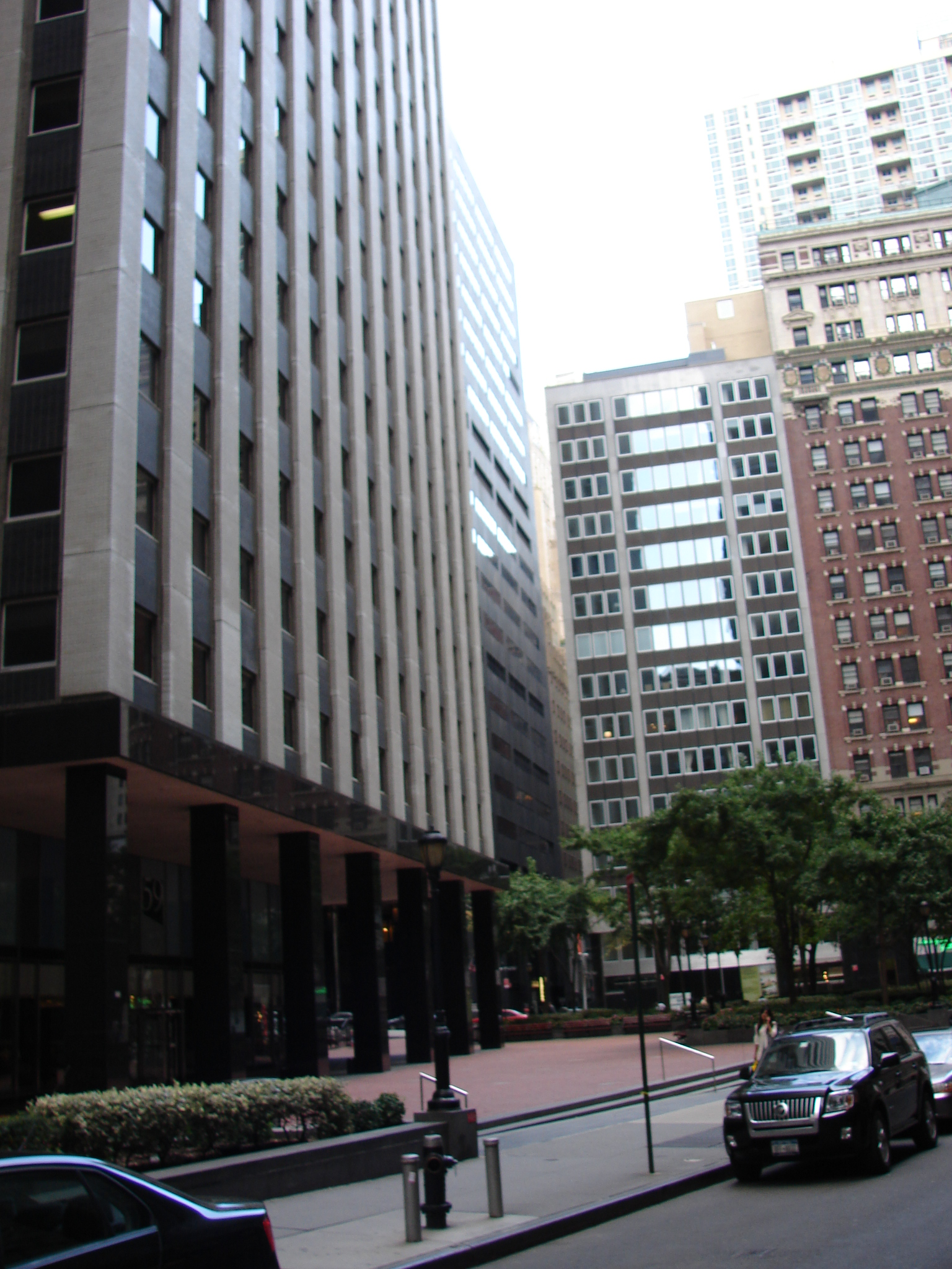 This photo is of Wikis Take Manhattan goal code H17, Home Insurance Plaza.